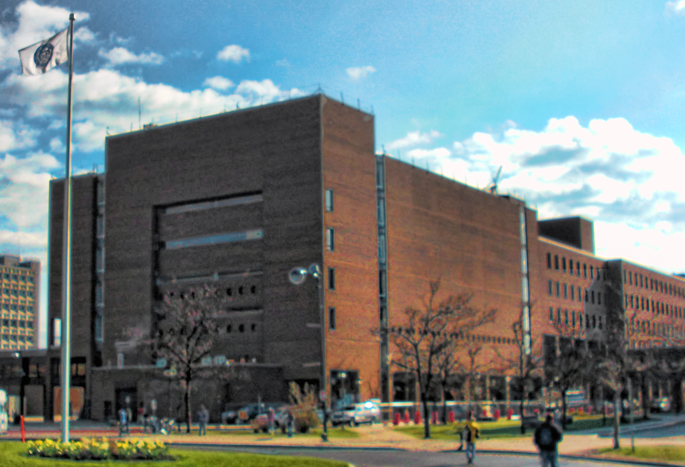 O'Brian Hall at the University at Buffalo North Campus